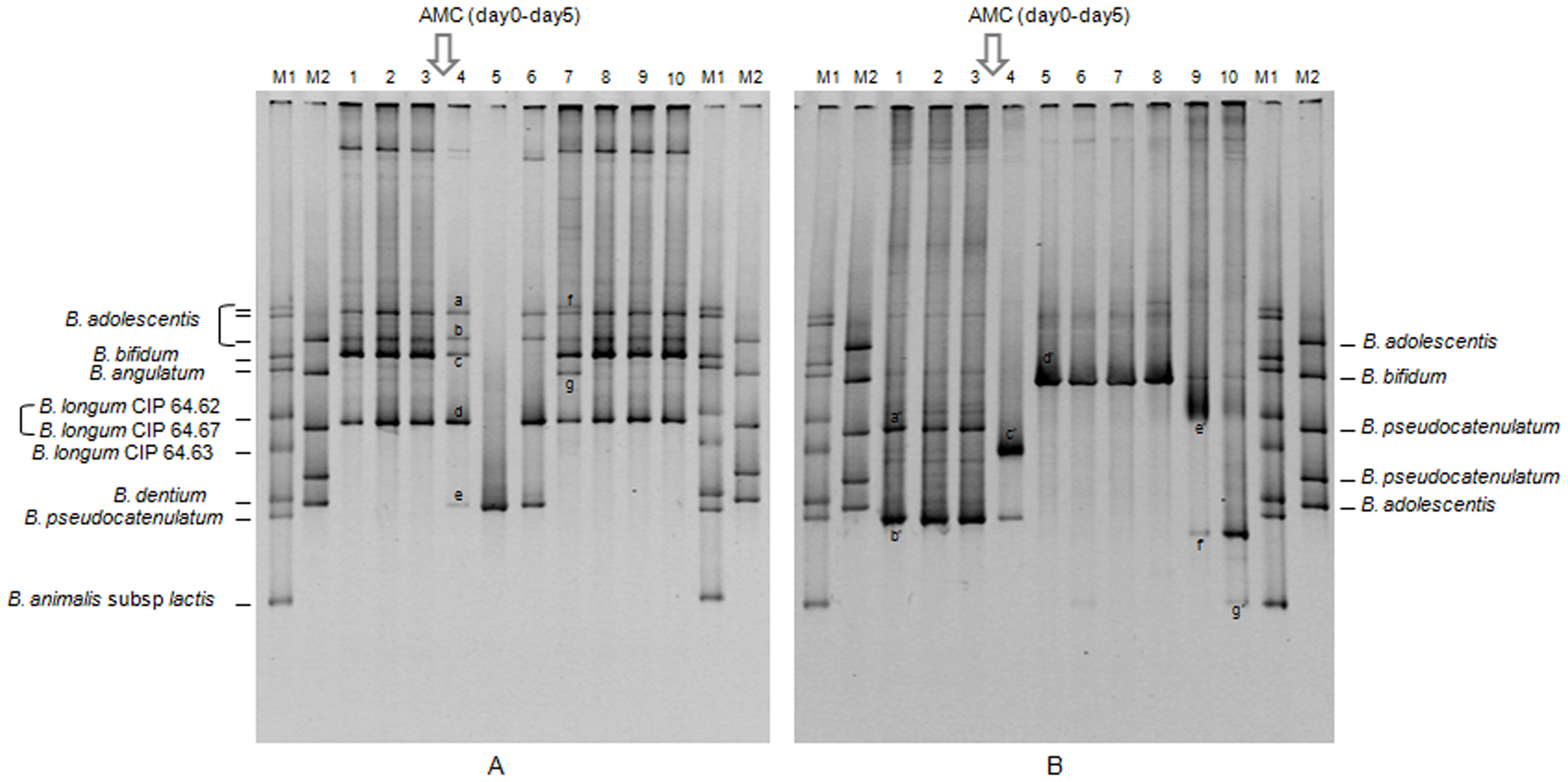 TGE profiles representing the bifidobacterial diversity of fecal samples from two healthy volunteers (A and B) before and after AMC exposure. 1:day-12; 2:day-6; 3:day 0; 4:day 5; 5:day 8; 6:day 12; 7:day 19; 8:day 26; 9:day 33; 10:day 64. a, b, d, e, f, a′: B. adolescentis; c, g: B. bifidum; b′: B. pseudocatenulatum; c′: B. longum; d′: B. dentium; e′: B. breve; f′: B. pseudolongum; g′: B. animalis subsp. lactis.